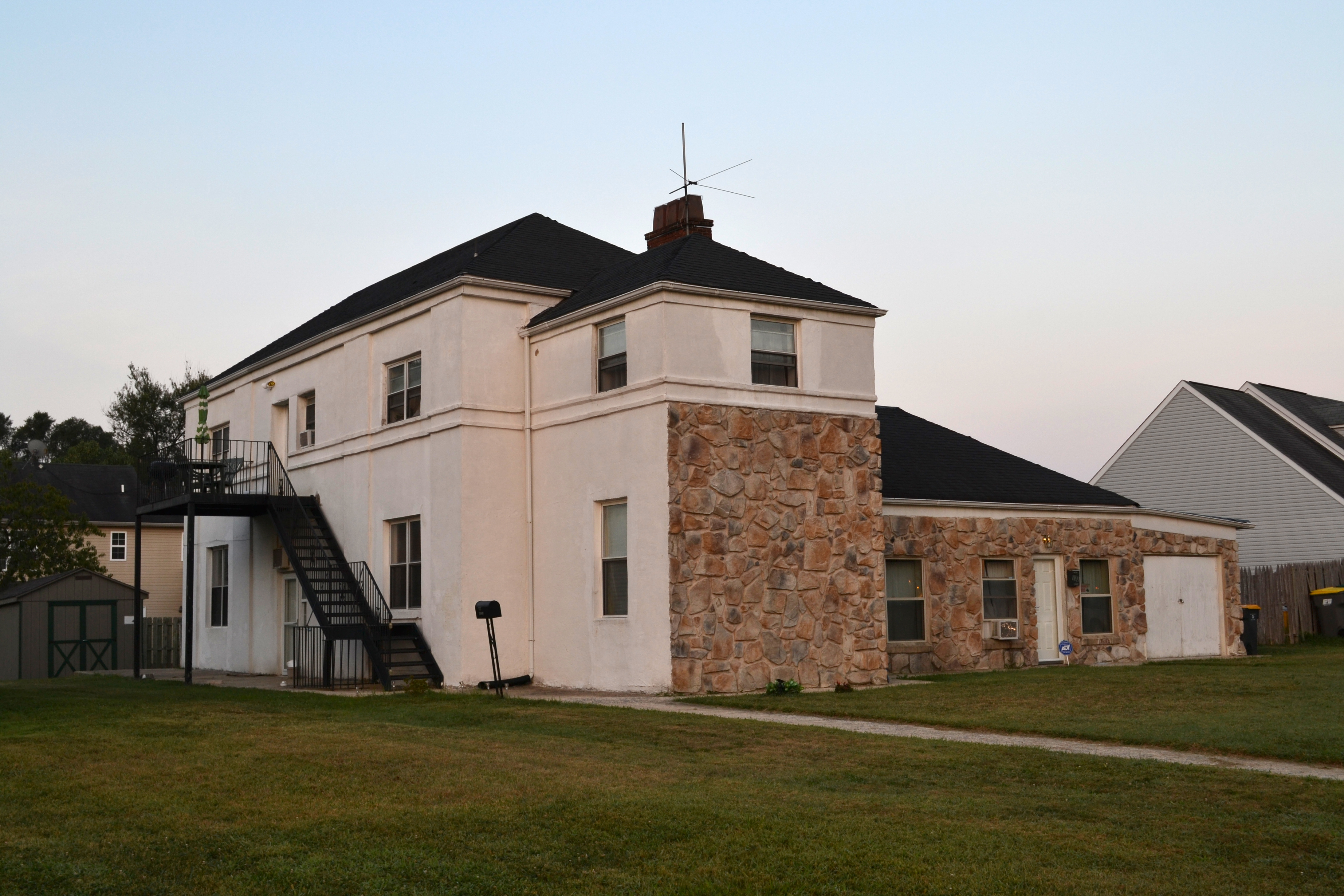 Swanwyck, a house listed on the National Register of Historic Places in New Castle County, Delaware